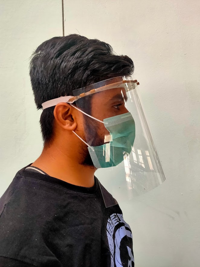 Face shield 5